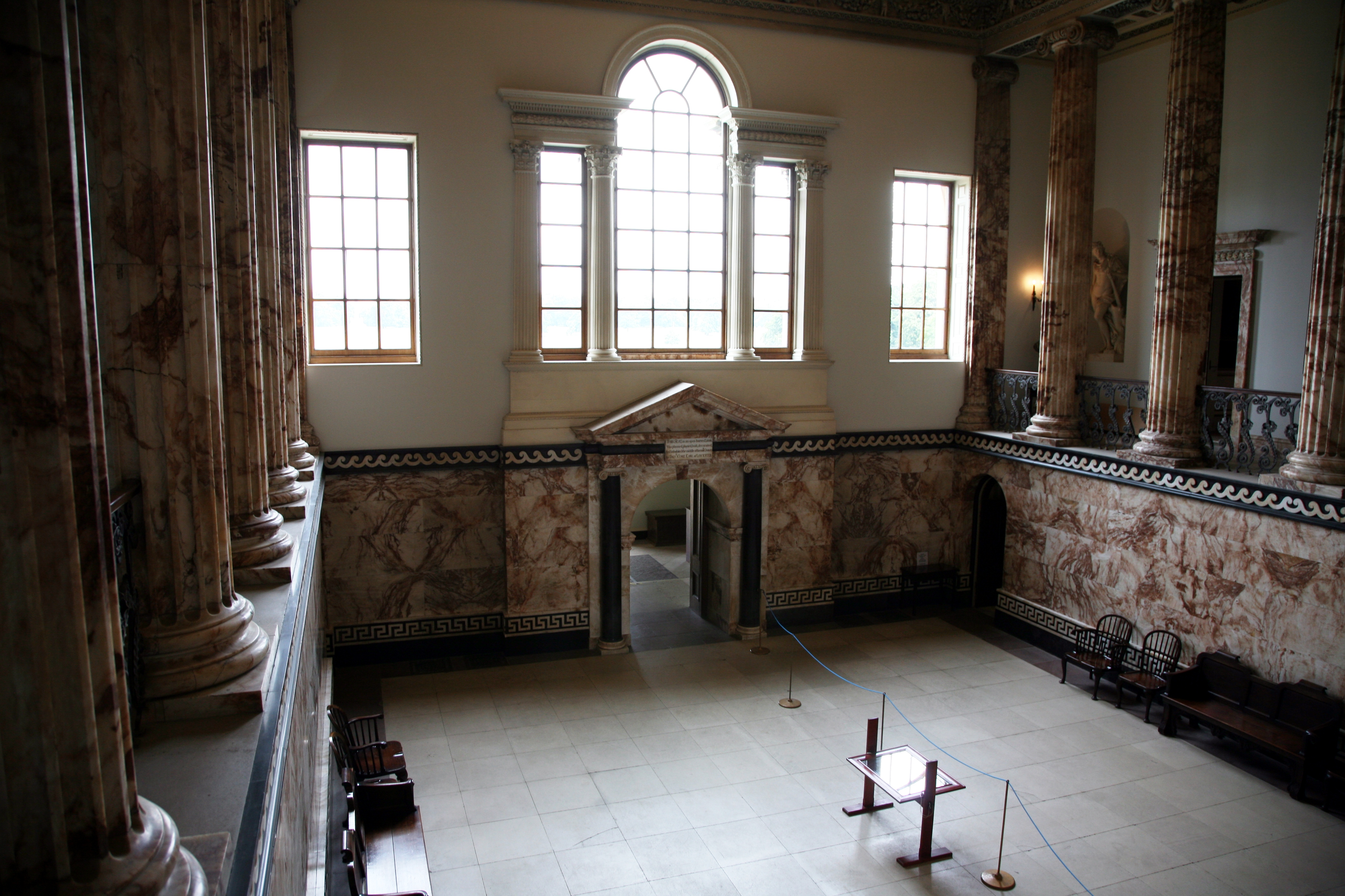 Holkham Hall in Norfolk. The Marble Hall